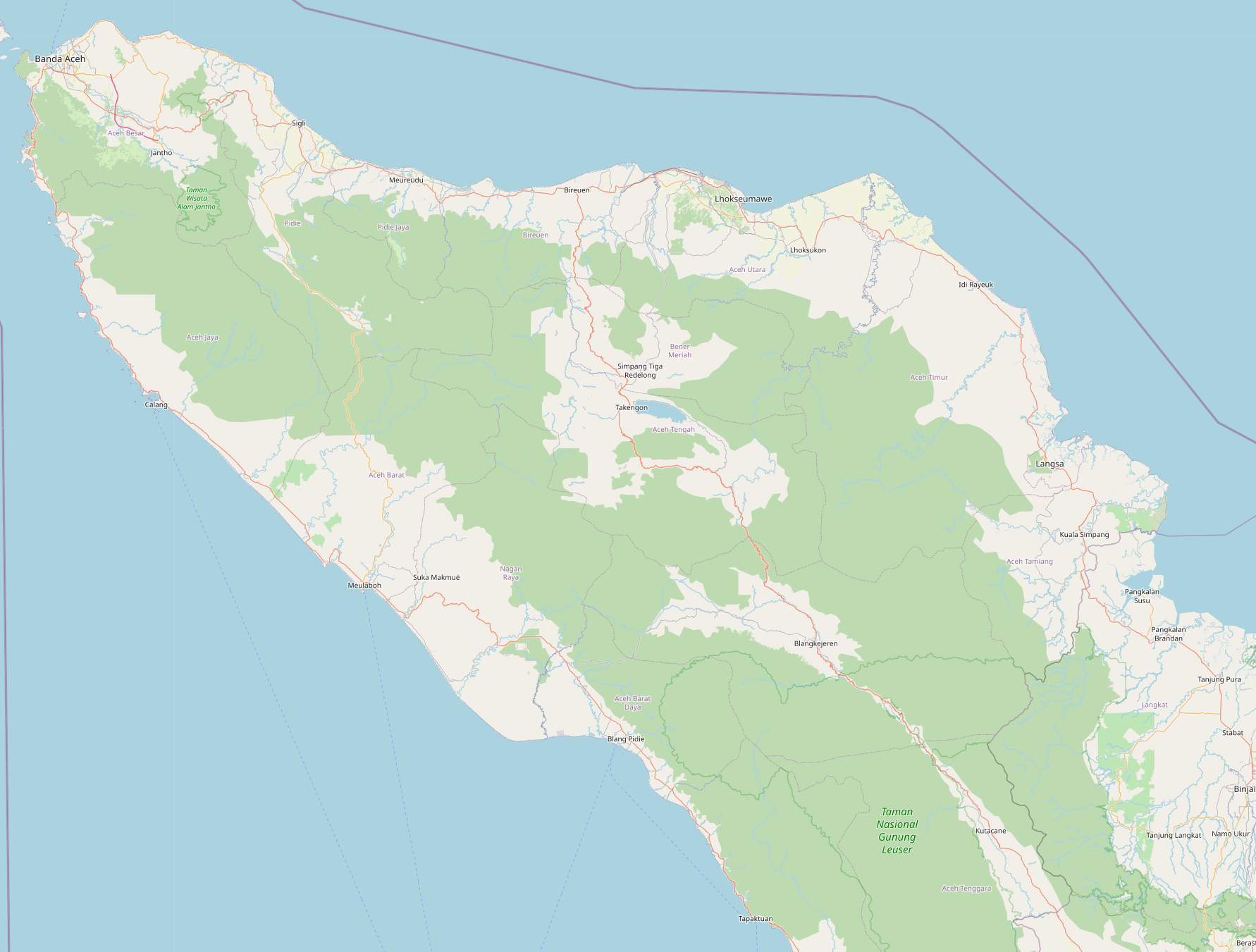 Aceh Province Sumatra Indonesia Geographic limits of the map: N: 5.71° S: 3.16° W: 95.18° E: 98.51°